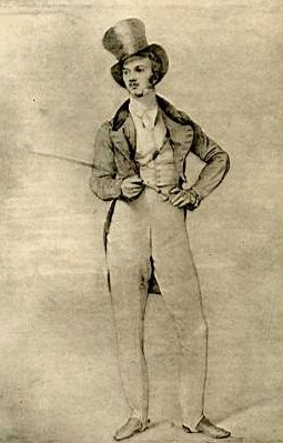 Portrait feet of a young elegant man with a mustache, the nineteenth century, facing the viewer. Hand to the left hip, he is wearing a coat, a top hat and carries a cane in his right hand.